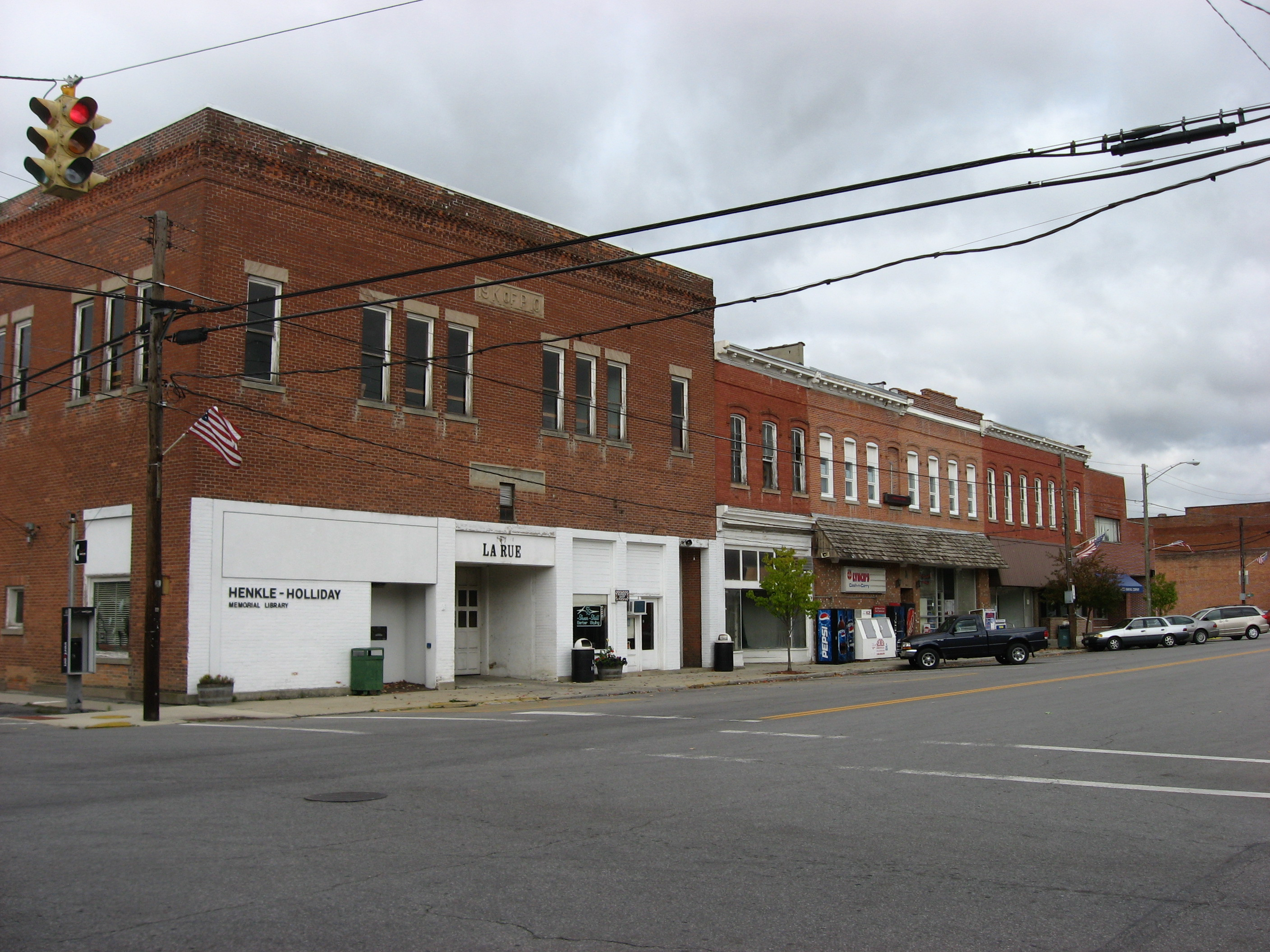 Business block in downtown LaRue, Ohio, United States, along the western side of the 100 block of N. High Street (State Route 37). Marker at top of leftmost building (currently the library) reads "19 K of P 10", apparently indicating that it was built for the Knights of Pythias in 1910.